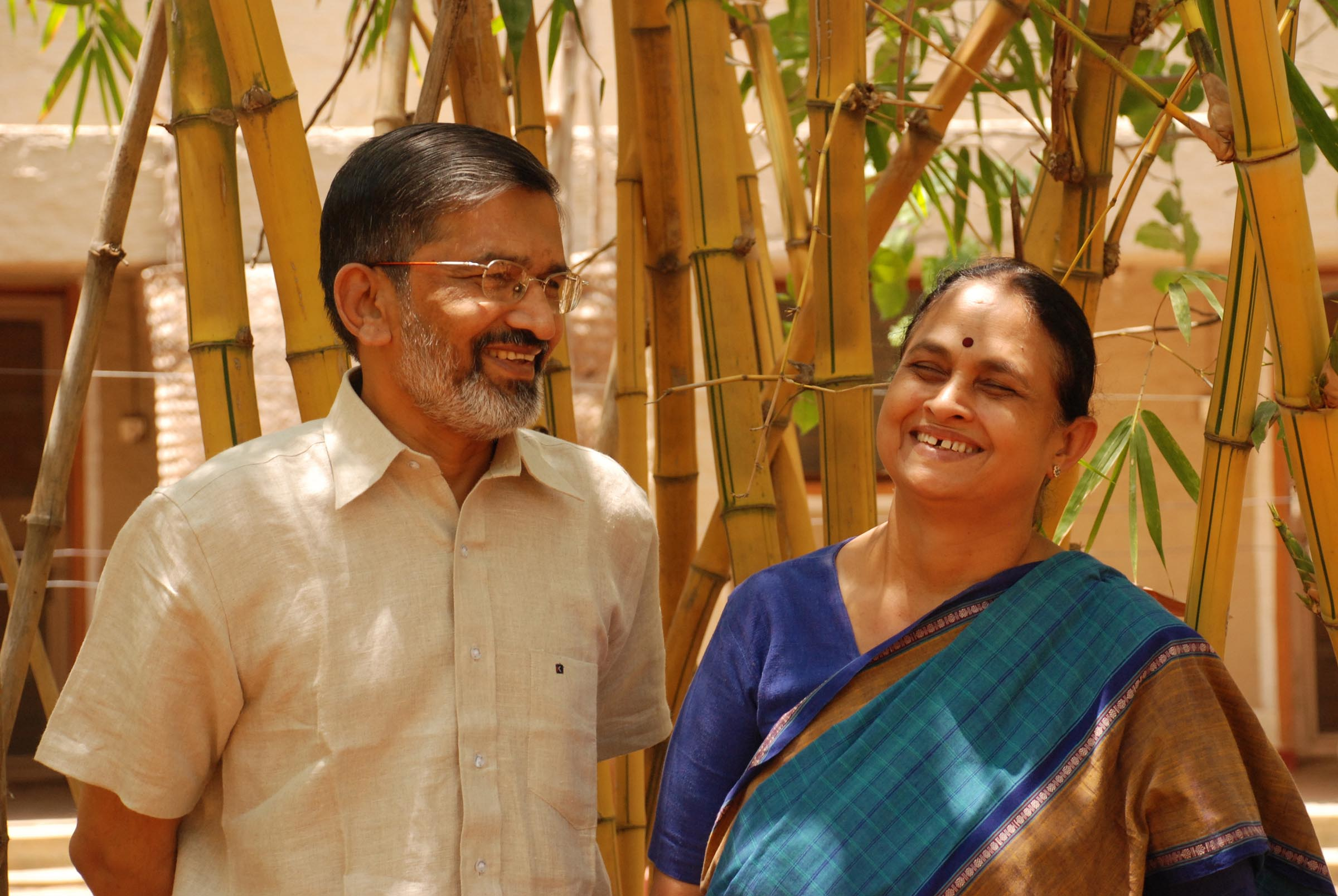 Dr. Abhay Bang and Rani Bang at SEARCH, Gadchiroli